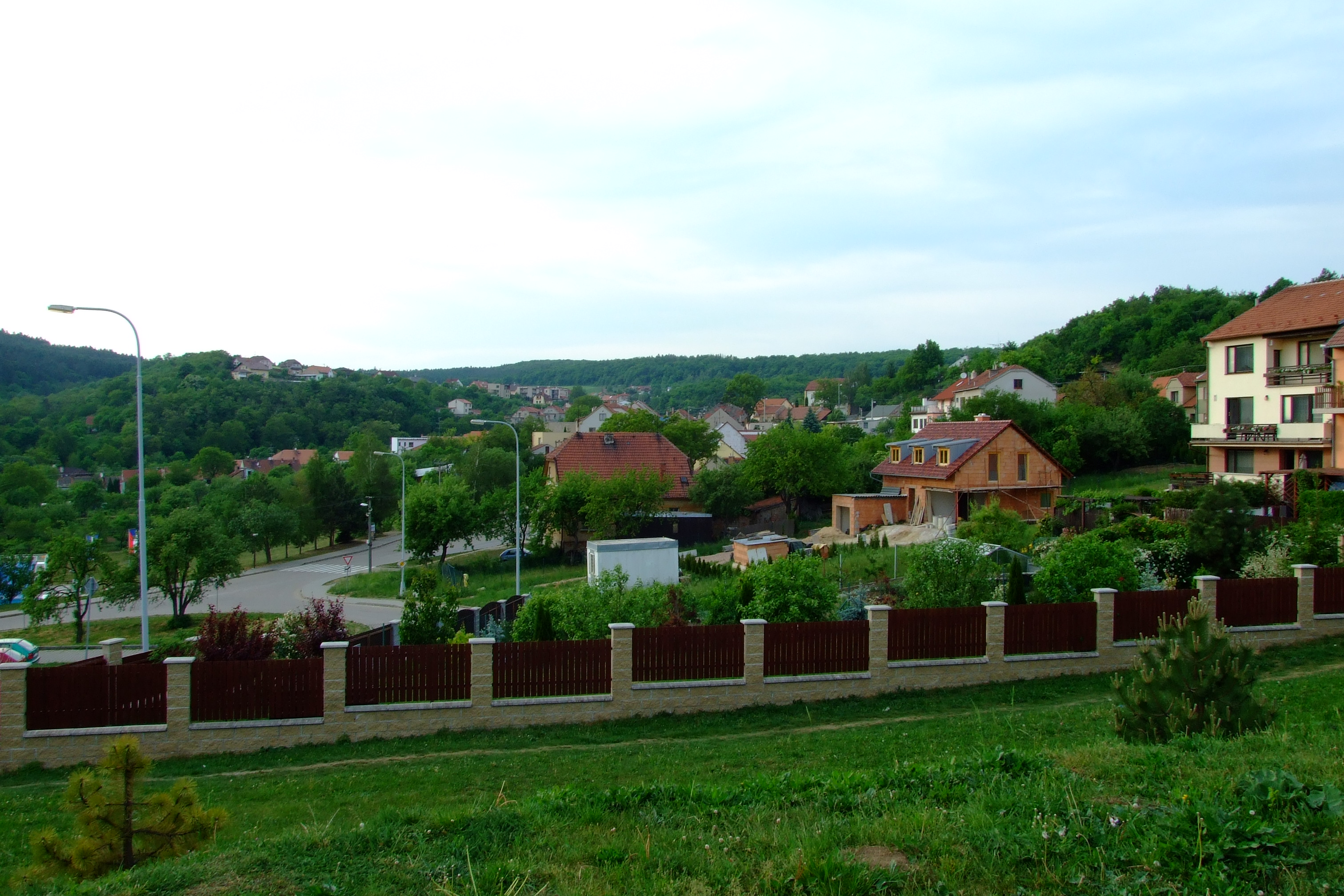 View on the old part of village of Mokrá